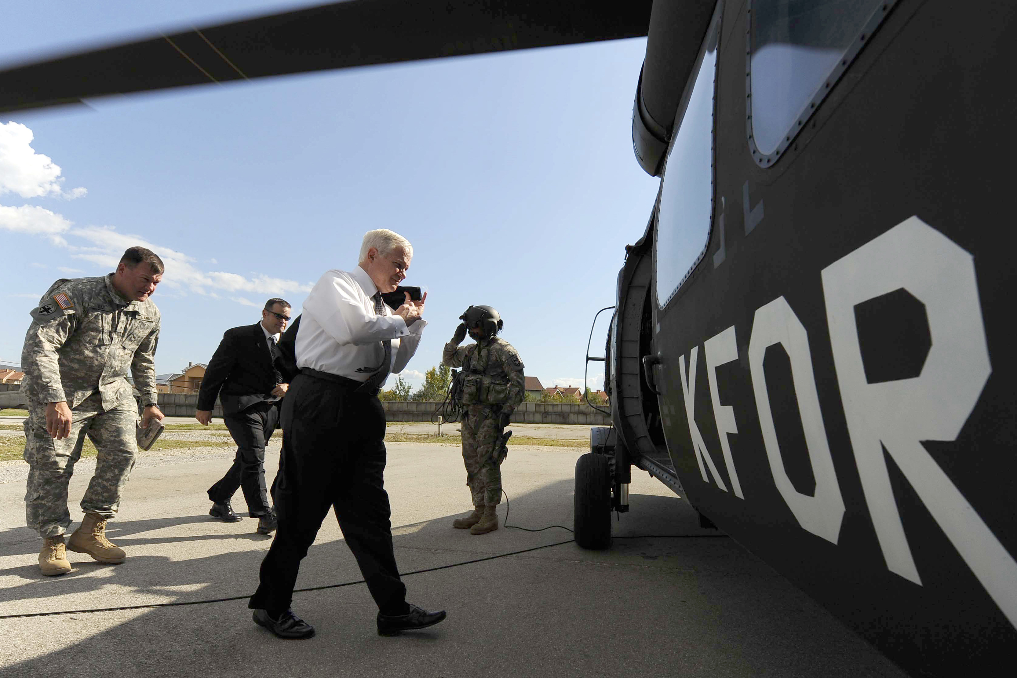 Defense Secretary Robert M. Gates boards a UH-60 Blackhawk on Camp Montieth, Kosovo after touring the local town of Gnjilane on foot, Oct. 7, 2008. DOD photo by U.S. Air Force Tech. Sgt. Jerry Morrison(released)